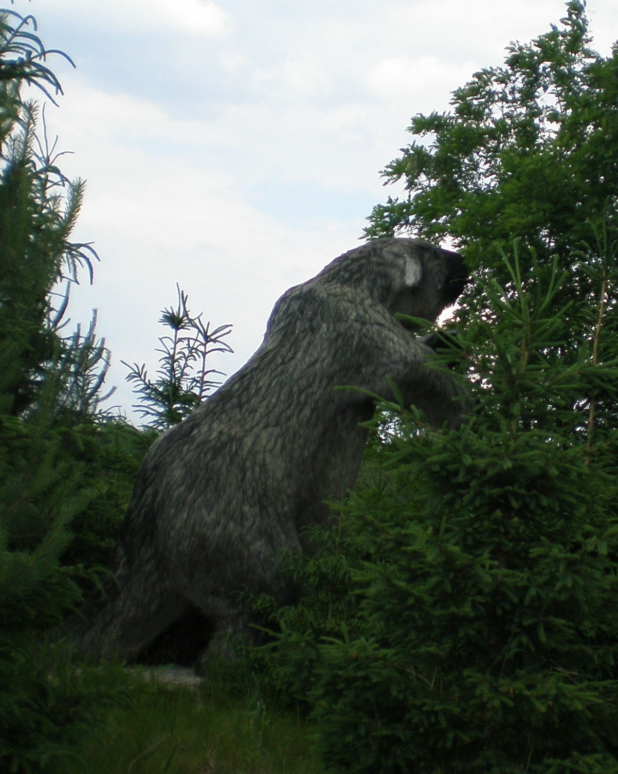 Restoration of a ground sloth in Tierpark Germendorf